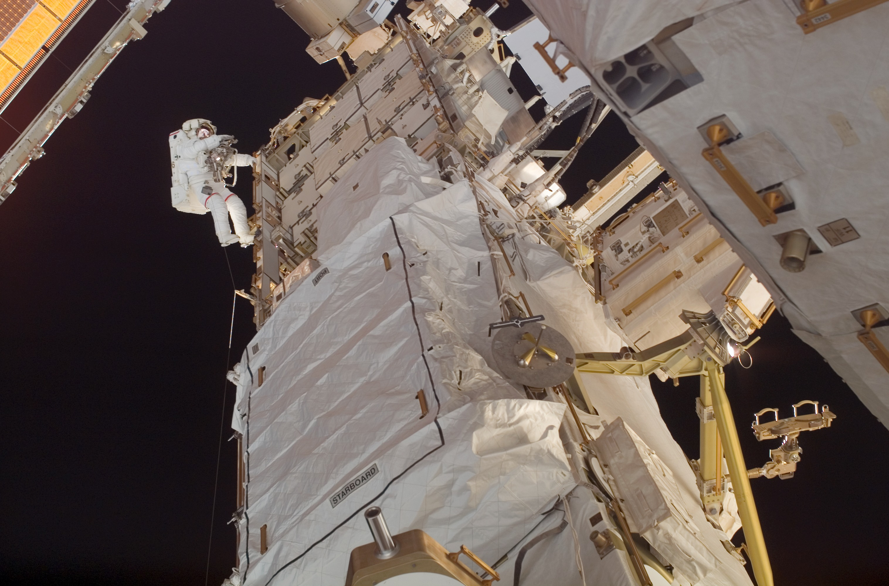 Astronaut Michael E. Lopez-Alegria, Expedition 14 commander and NASA space station science officer, participates in the second of three sessions of extravehicular activity (EVA) in nine days, as construction continues on the International Space Station. During the spacewalk, Lopez-Alegria and Sunita L. Williams (out of frame), flight engineer, reconfigured the second of two cooling loops for the Destiny laboratory module, secured the aft radiator of the P6 truss after retraction and prepared the obsolete Early Ammonia Servicer (EAS) for removal this summer.